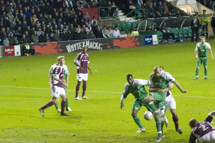 Photo taken by DavyJAllan